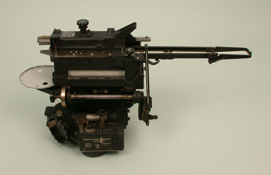 The Course Setting Bomb Sight Mk. X was the last version in this venerable line of "vector bombsights", and represents a dramatic change in form from earlier models. The compass, normally on the round metal plate on the left, is missing. In this case, the operational details of the device are not as obvious as those in previous versions. The mechanisms representing the various vectors of a conventional navigation diagram have been made entirely internal to the main frame of the device, and are set by a series of dials and associated scales on the sides.